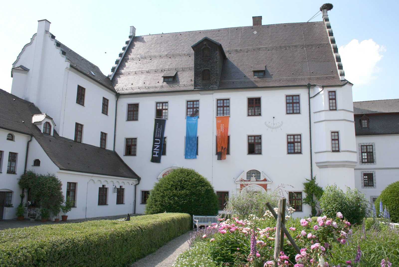 The rear building of the Vöhlinschloss Illertissen, a Renaissance castle housing the conference and convention center "Hochschulzentrum Vöhlinschloss", jointly run by the Universities of Applied Sciences Neu-Ulm, Kempten and Augsburg.